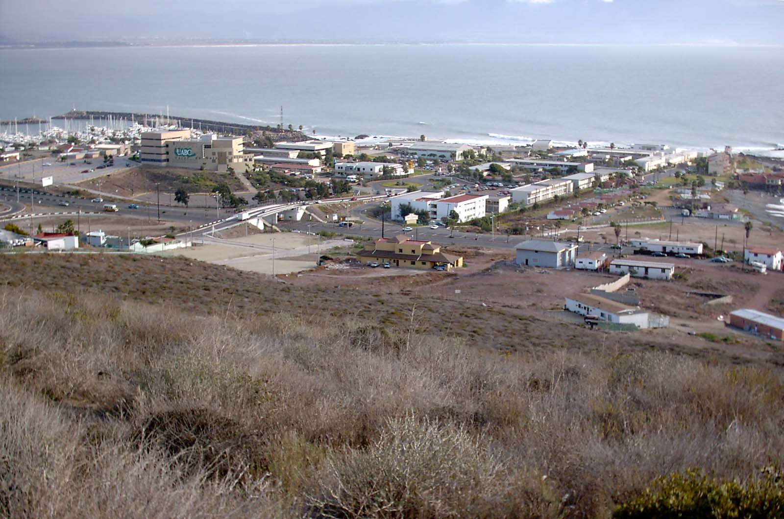 Ensenada Campus of the Autonomous University of Baja California in Ensenada, Baja California, Mexico.